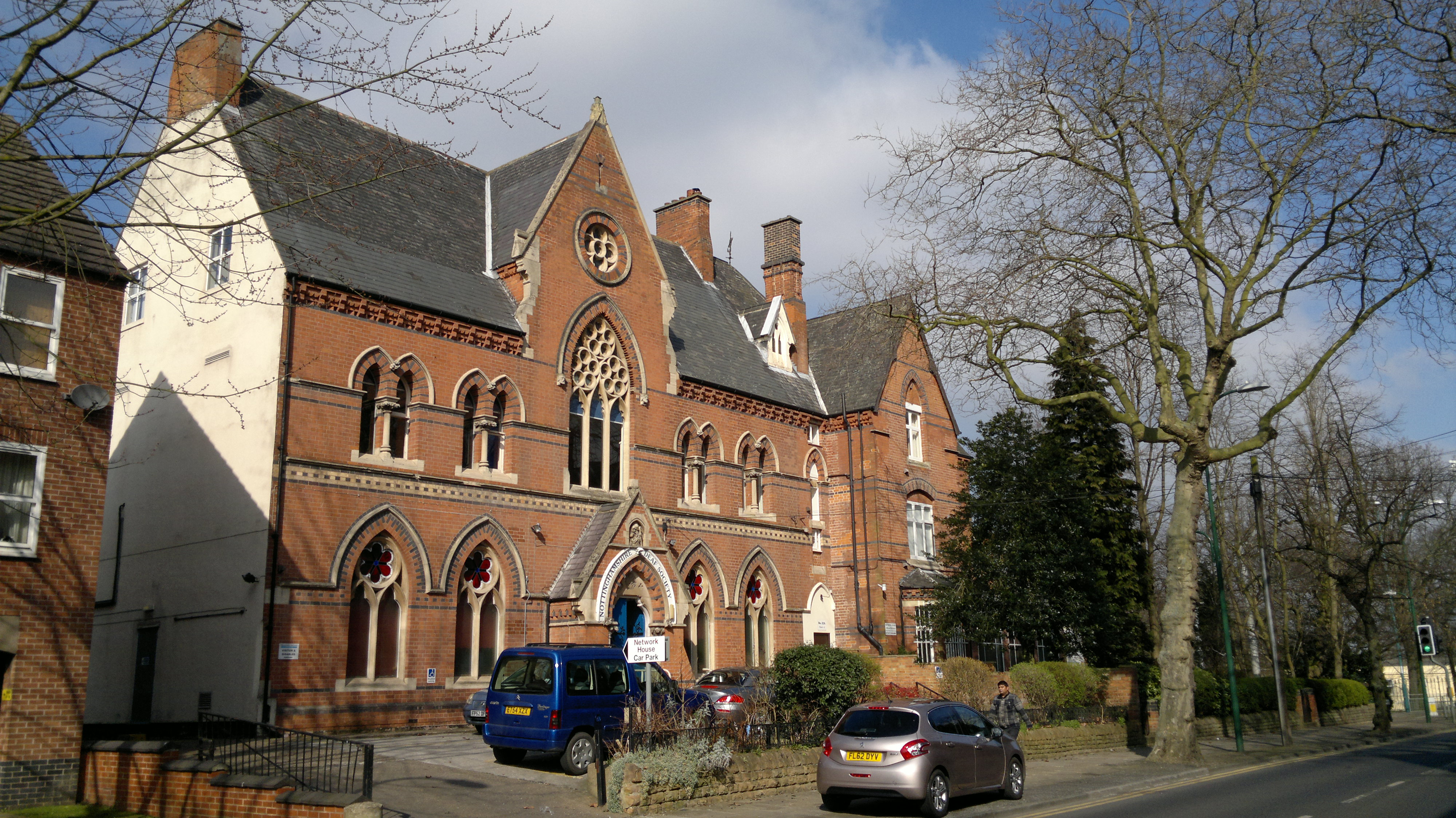 Nottinghamshire Deaf Society building